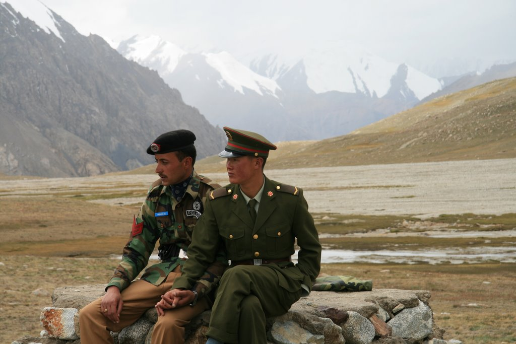 Chinese and Pakistan border guards at Khunjerab Pass